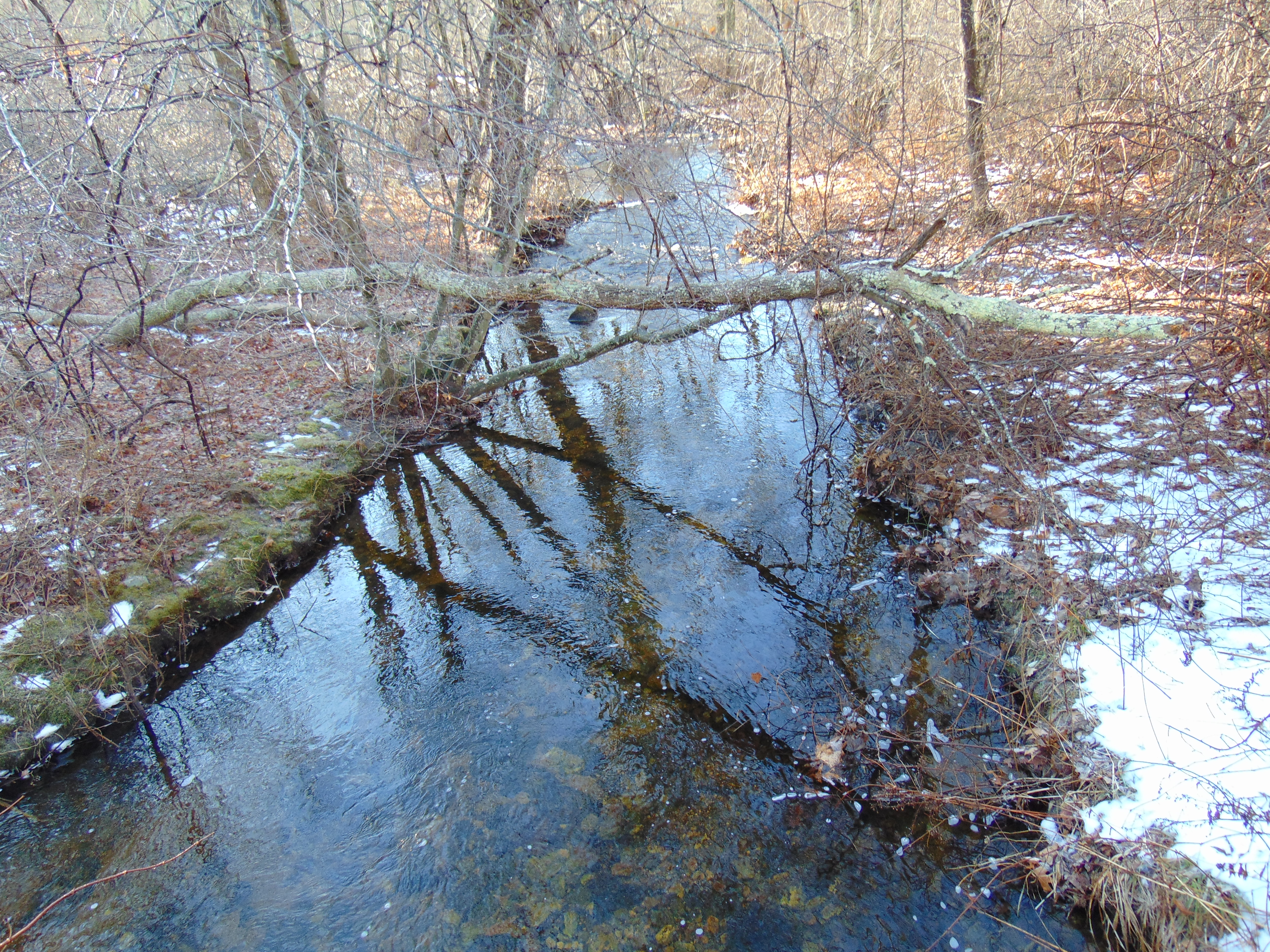 A photo of Merrick Brook in winter